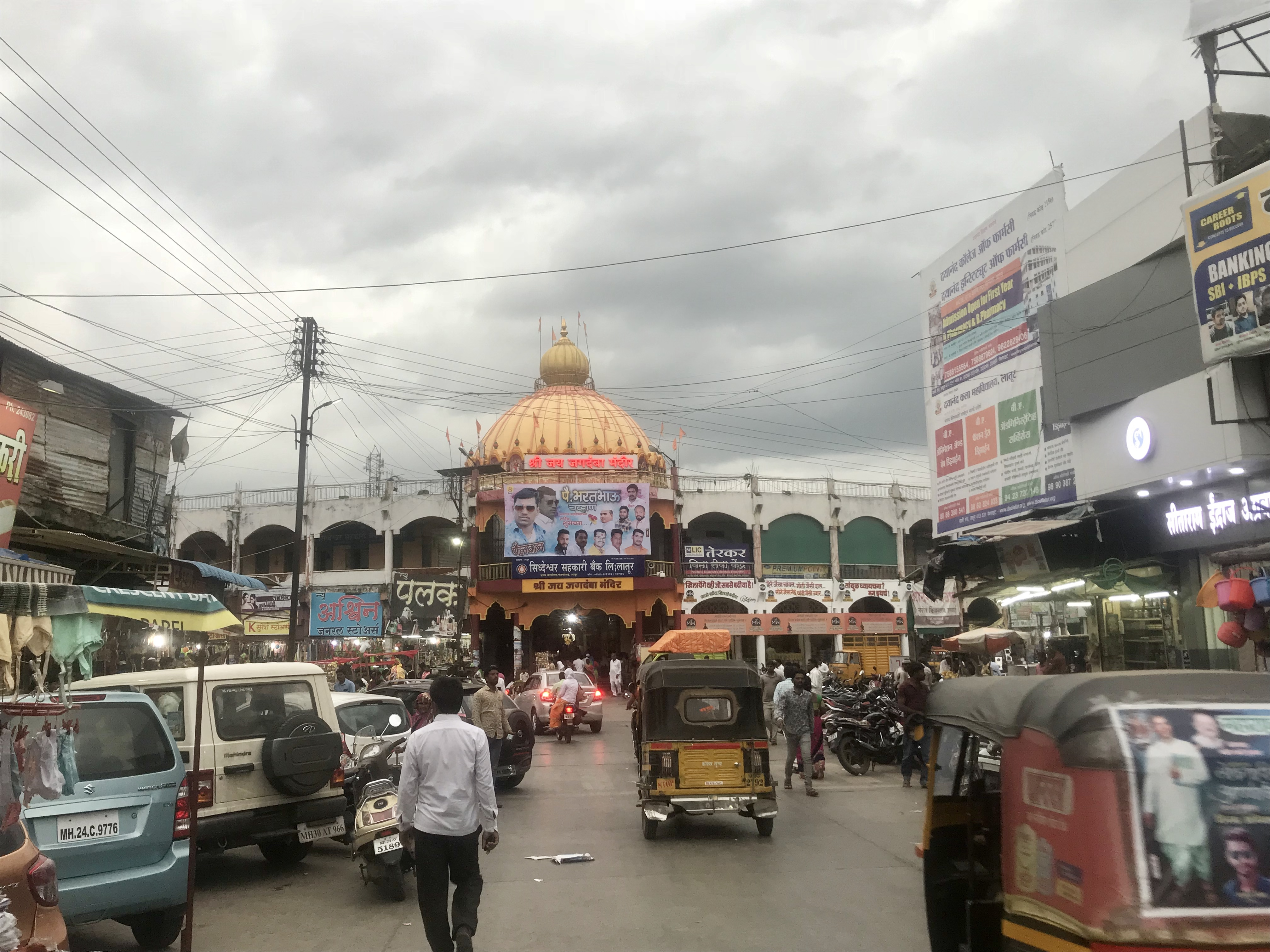 Latur city has the famous 'Ganjgolai' as the central place of the city. The town planner Shri Faiyajuddin prepared the plan for the 'Ganjgolai Chowk'. The main building of the Golai is a huge two-storied structure which was constructed around the year 1917. In the middle of the circular structure is the temple of Goddess Ambabai. There are 16 roads connecting to this Golai and along these roads are separate markets selling all kinds of traditional local wares such as gold ornaments to footwear and food items from chilli to jaggery. Thus, the 'Ganjgolai' has become the main commercial and trade centre of this city.